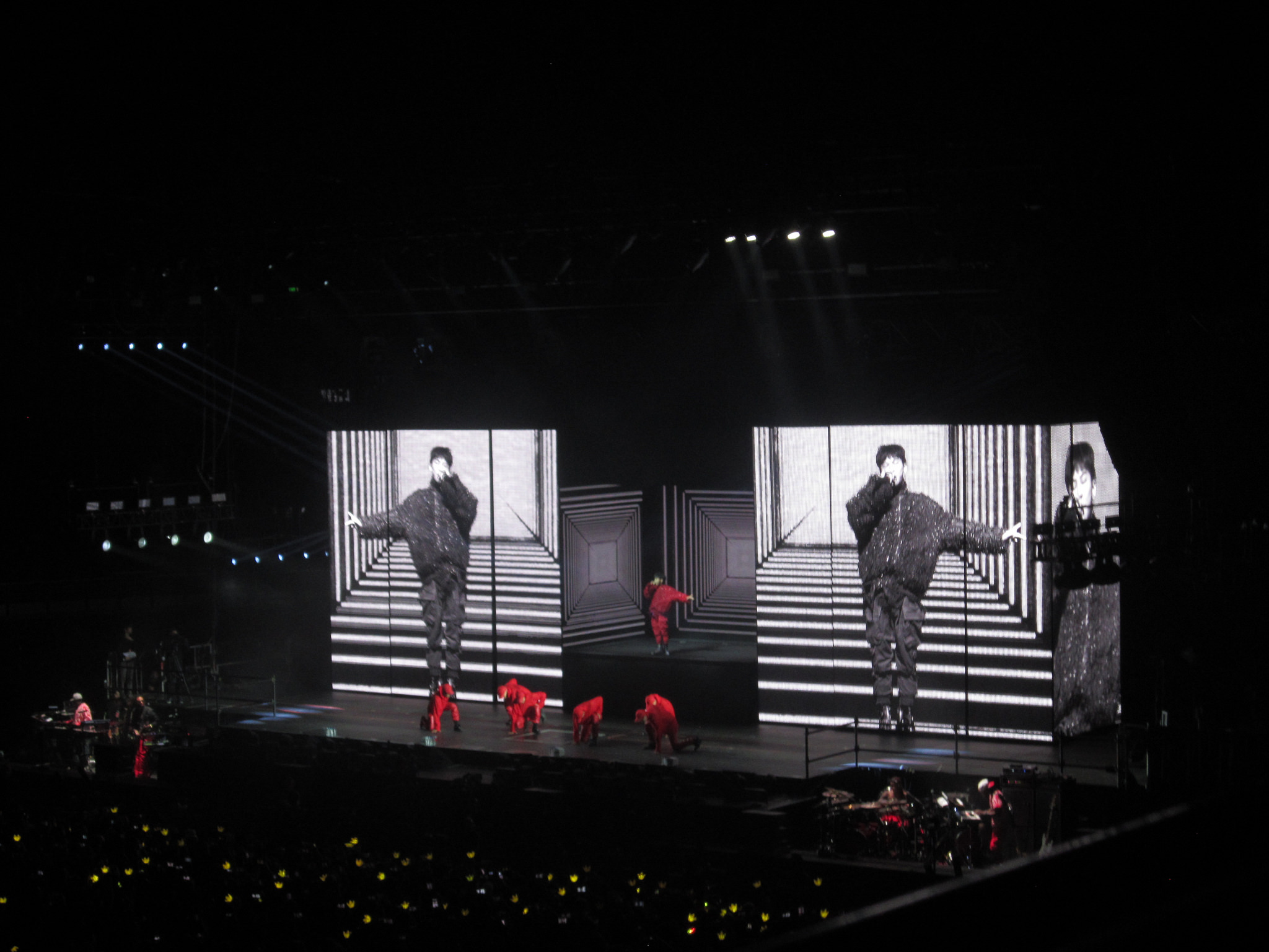 G-Dragon first solo concert in Sydney, Australia on August 5th, 2017